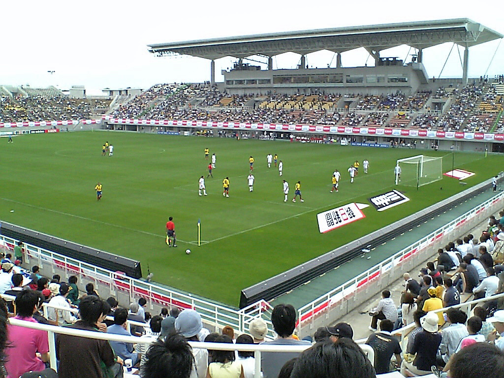 kirin Cup 2007, Colombia national football team vs. Montenegro national football team in Matsumotodaira Park Stadium Alwin.